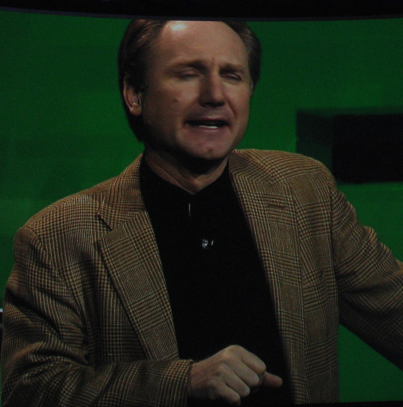 Dan Brown, American author of thriller fiction, best known for writing the controversial 2003 bestselling novel, The Da Vinci Code. Taken at a demostration of Sony's "ebook" technology.